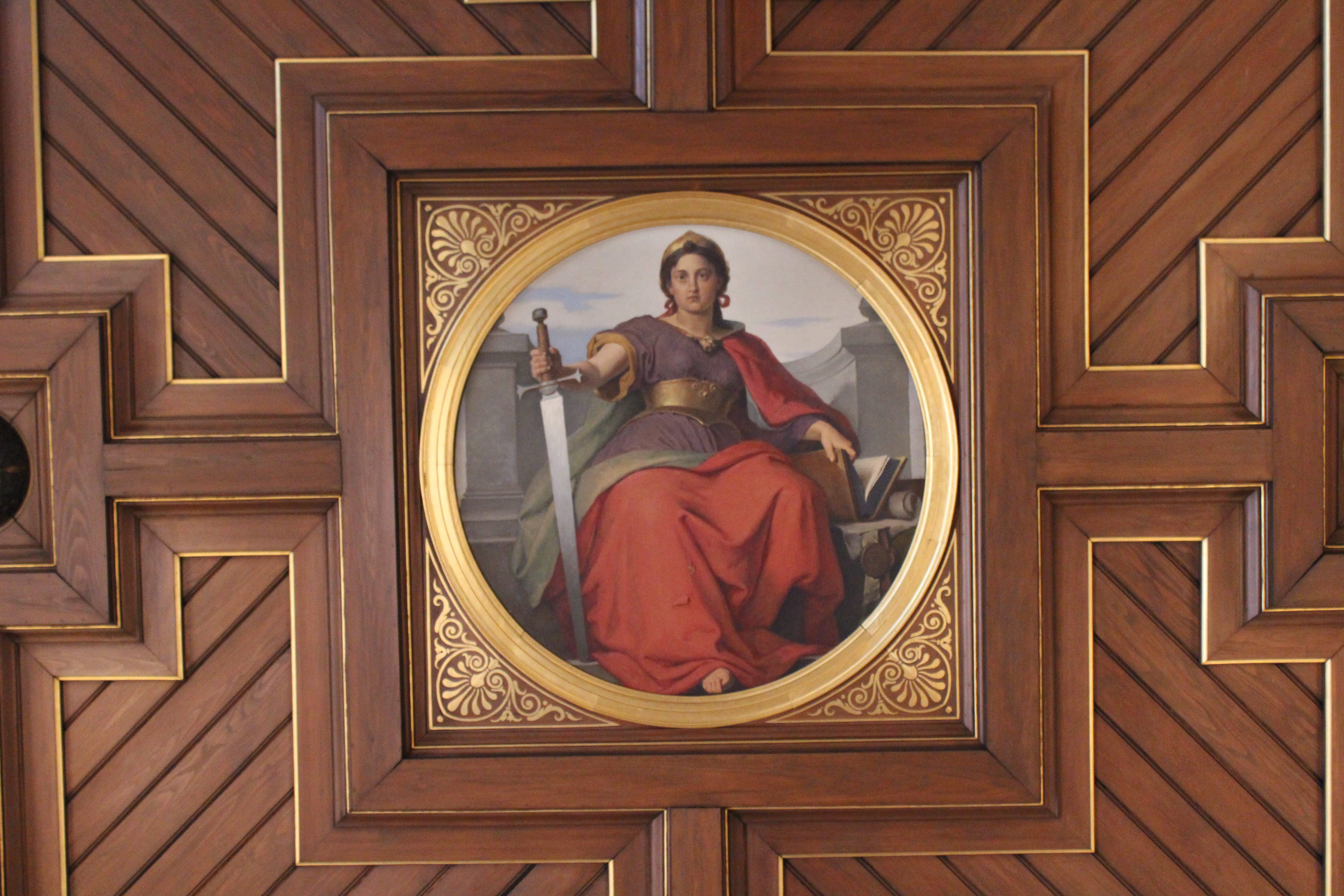 Detail, Ceeling, The University of Heidelberg, the aula